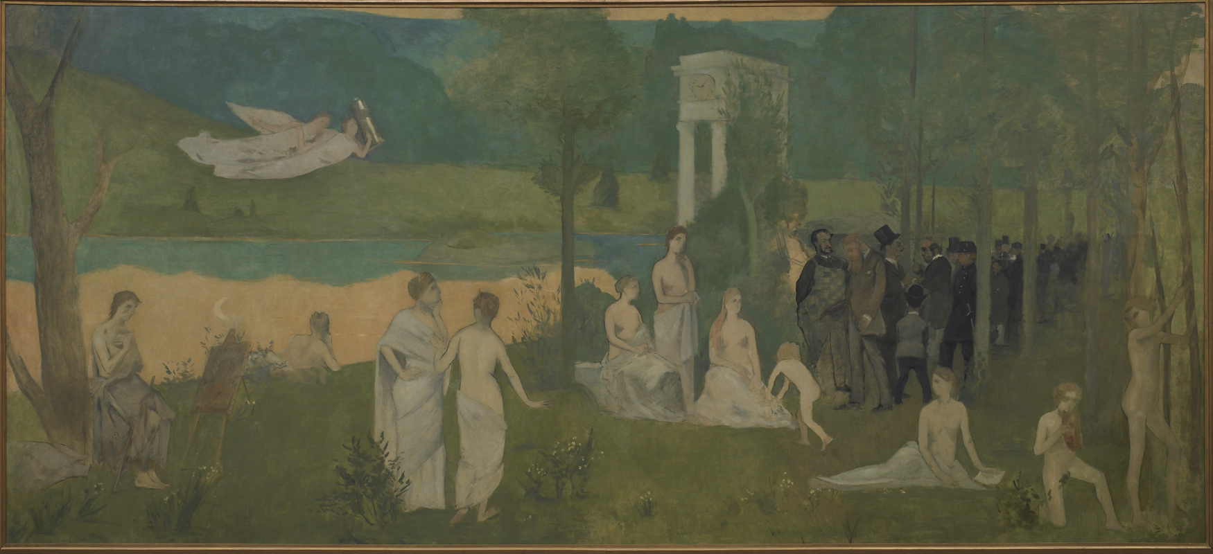 Henri de Toulouse-Lautrec, French, 1864–1901 The Sacred Grove, 1884 Oil on canvas 172 x 380 cm. (67 11/16 x 149 5/8 in.) frame: 177.8 x 386.7 x 4 cm The Henry and Rose Pearlman Foundation, on long-term loan to the Princeton University Art Museum L.1988.62.13 Dortu 232